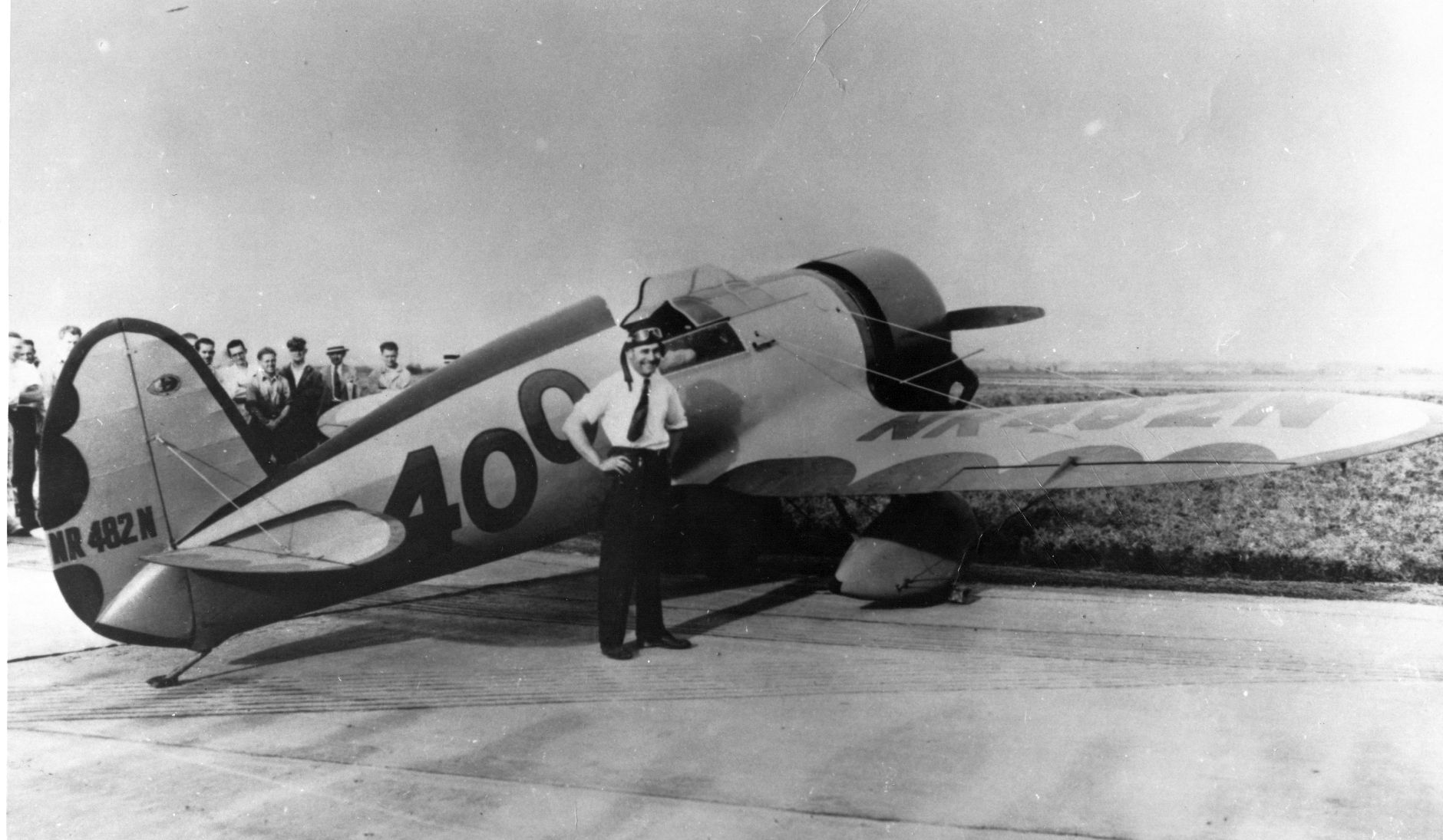 Travel Air Type R Mystery Ship NR482N with pilot Jimmy Doolittle.